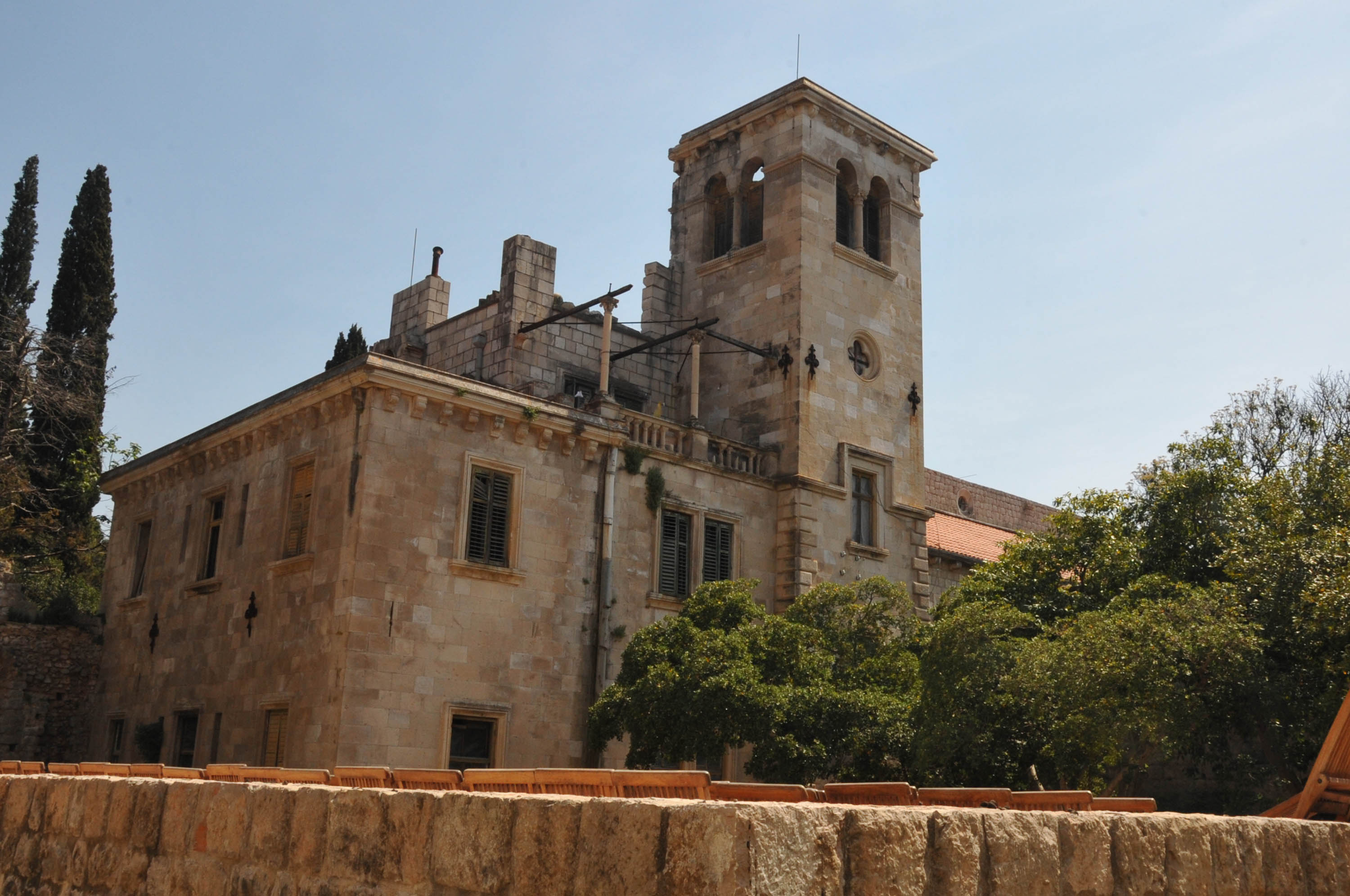 BENEDICTINE ABBEY AND MONASTERY WHICH WAS BUILT IN 1023. RICHARD THE LION-HEARTED WAS SHIPWRECKED ON THIS ISLAND VOWED TO BUILD A CHURCH BUT IT WAS BUILT LATER ON THE MAINLAND